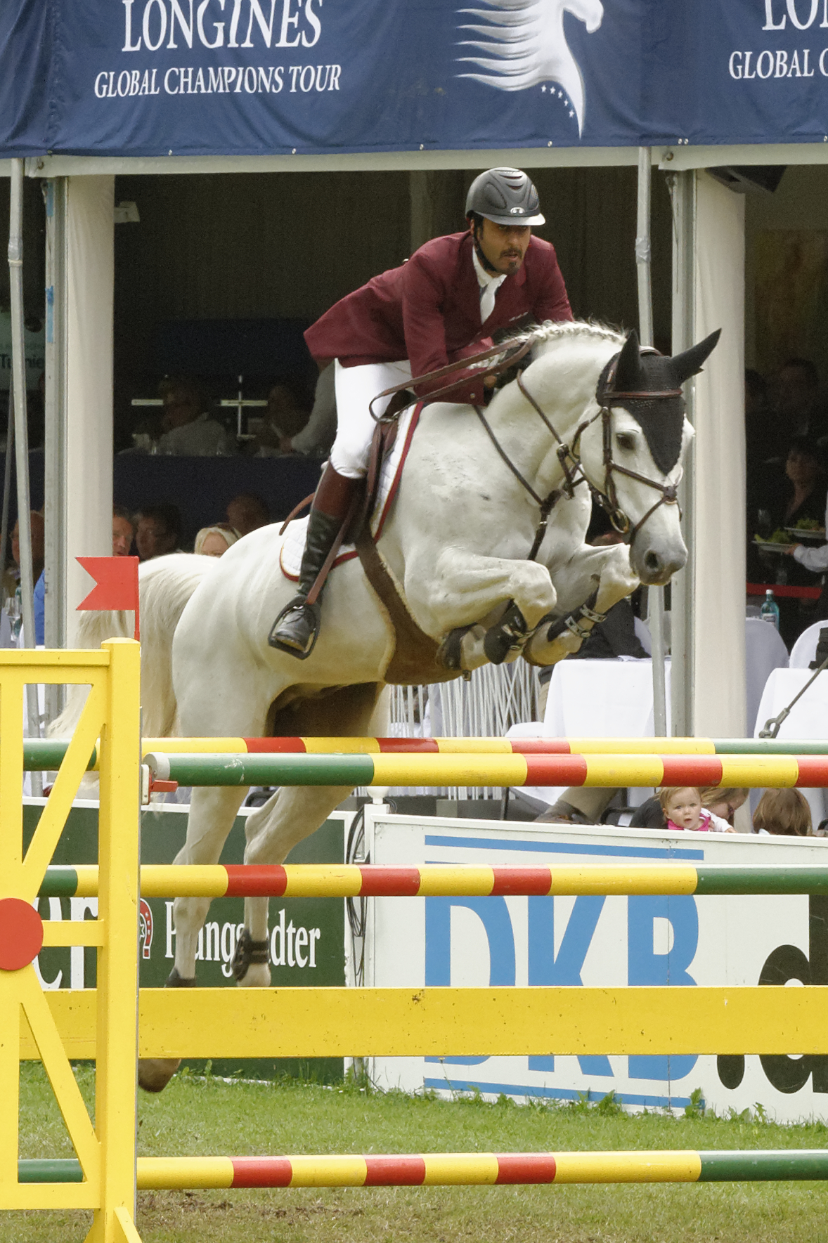 Internationales Pfingstturnier Wiesbaden 2013 The making of this document was supported by the Community-Budget of Wikimedia Germany.